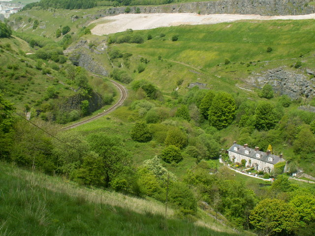 Blackwell mill. Eight railway cottagers built in 1866 they used to have their own halt, it was said to be the smallest passenger station on British railways, it was closed in 1966. Several valleys and paths meet here.